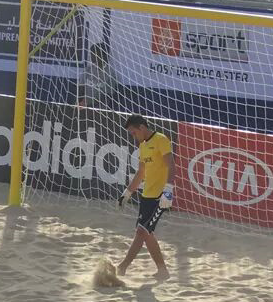 Afghan goalkeeper Kawesh Haidary during the World Cup qualification match between Afghanistan and Bahrain (2:5)